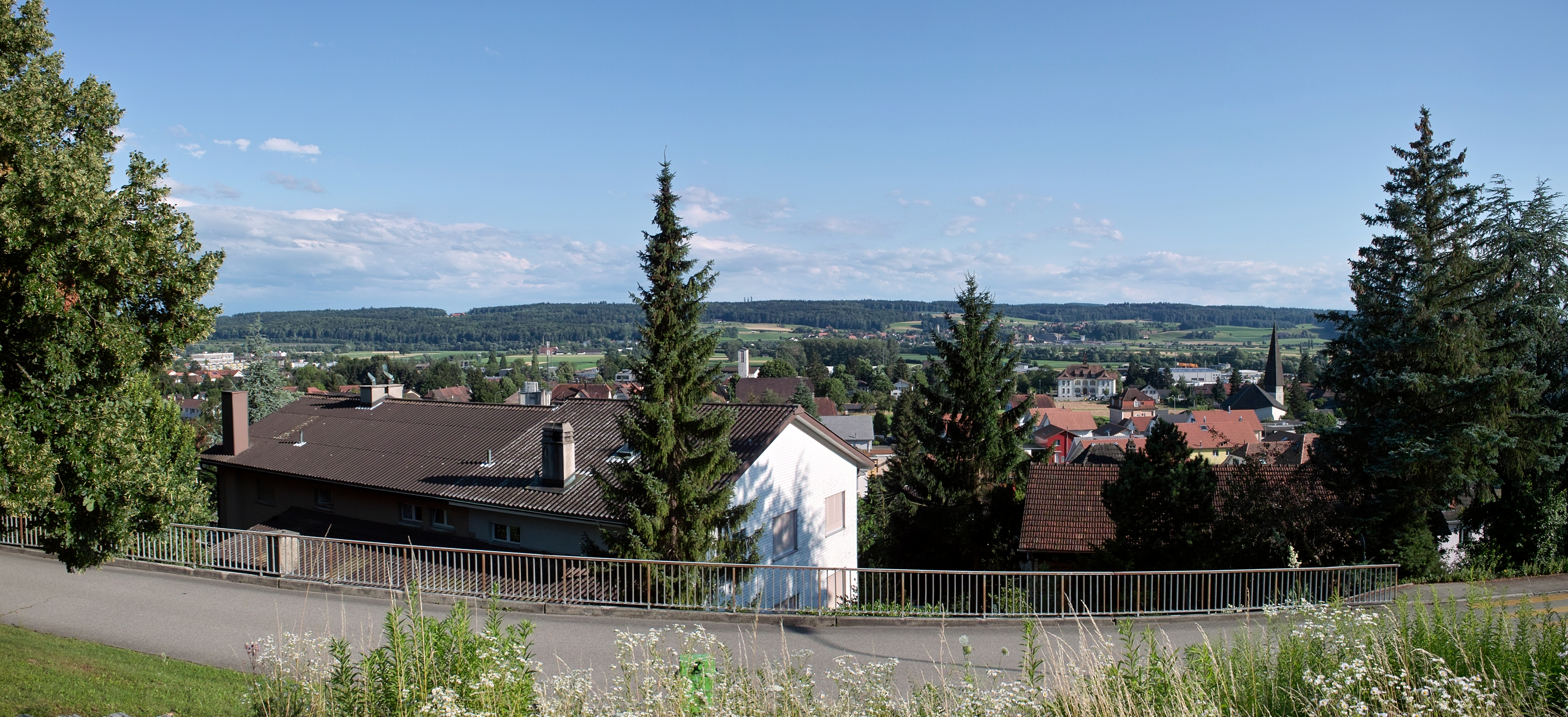 Panorama view of Bellach, canton of Solothurn, Switzerland.